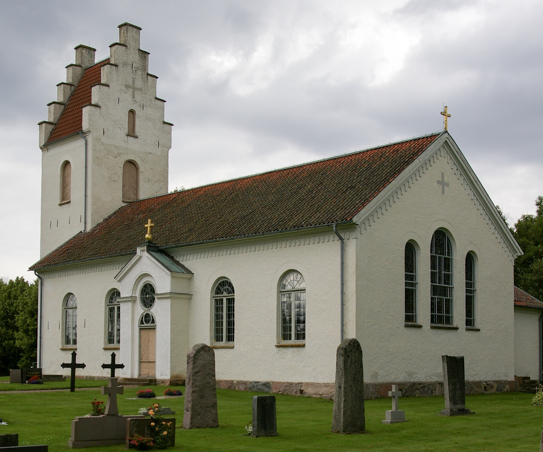 Trävattna kyrka (Swedish:Church of Trävattna) in Västergötland, Sweden.